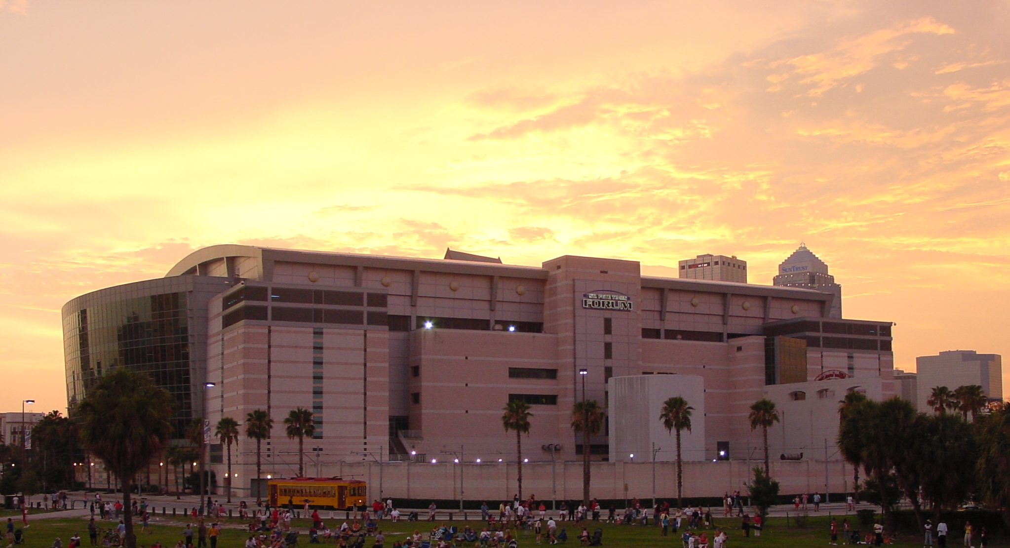 This photograph is of the Tampa Bay Times Forum (formerly known as the St. Pete Times Forum) in Tampa, FL. It was taken on July 4, 2004 at sunset while I was waiting for a fireworks display to start.